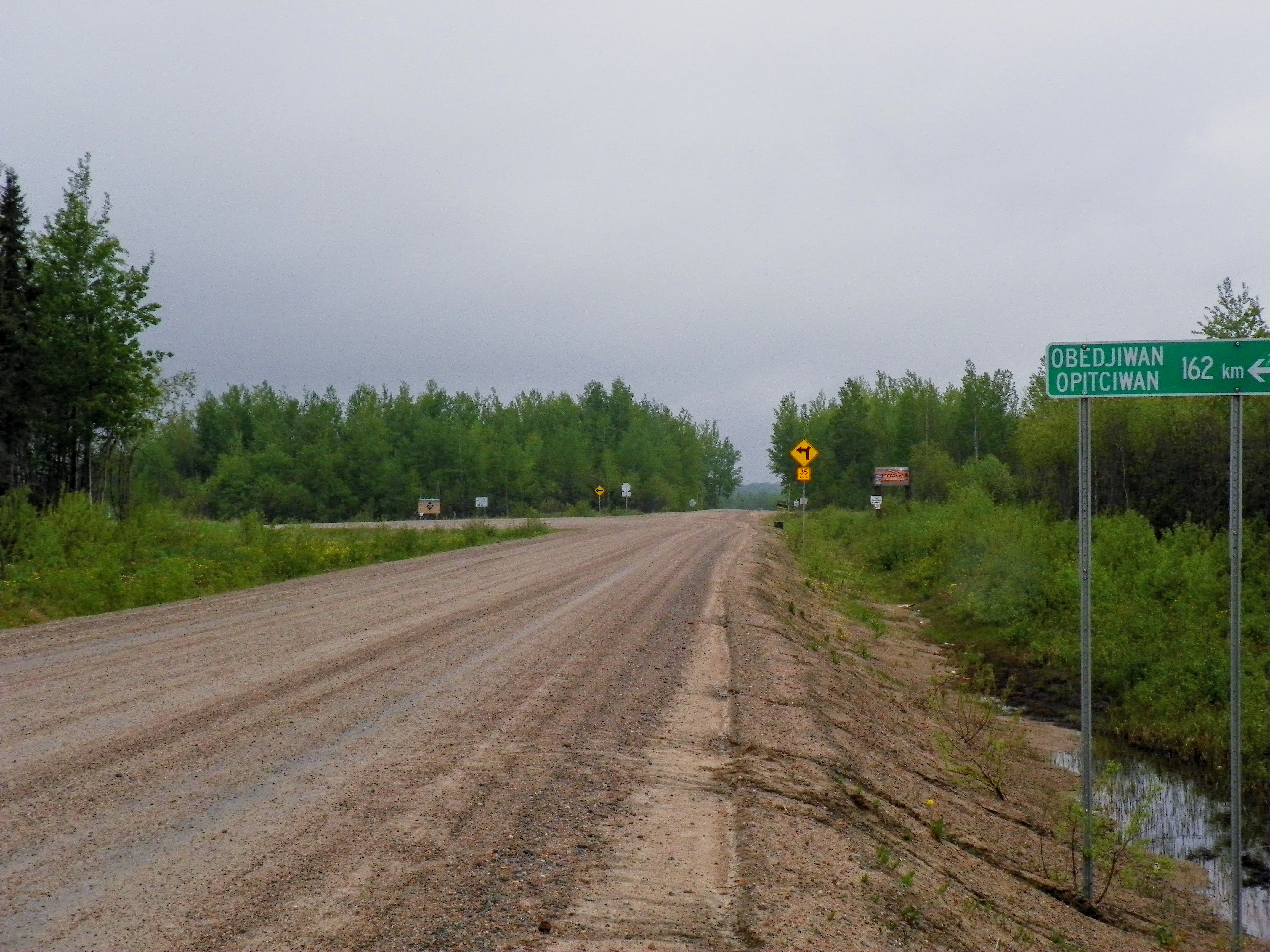 Logging Road 0212 towards Obedjiwan meets with route 0203 near Abitibibowater's Chibougamau plant